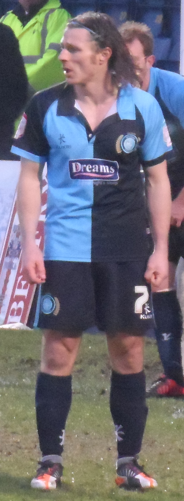 Gareth Ainsworth. Image cropped from original at flickr.